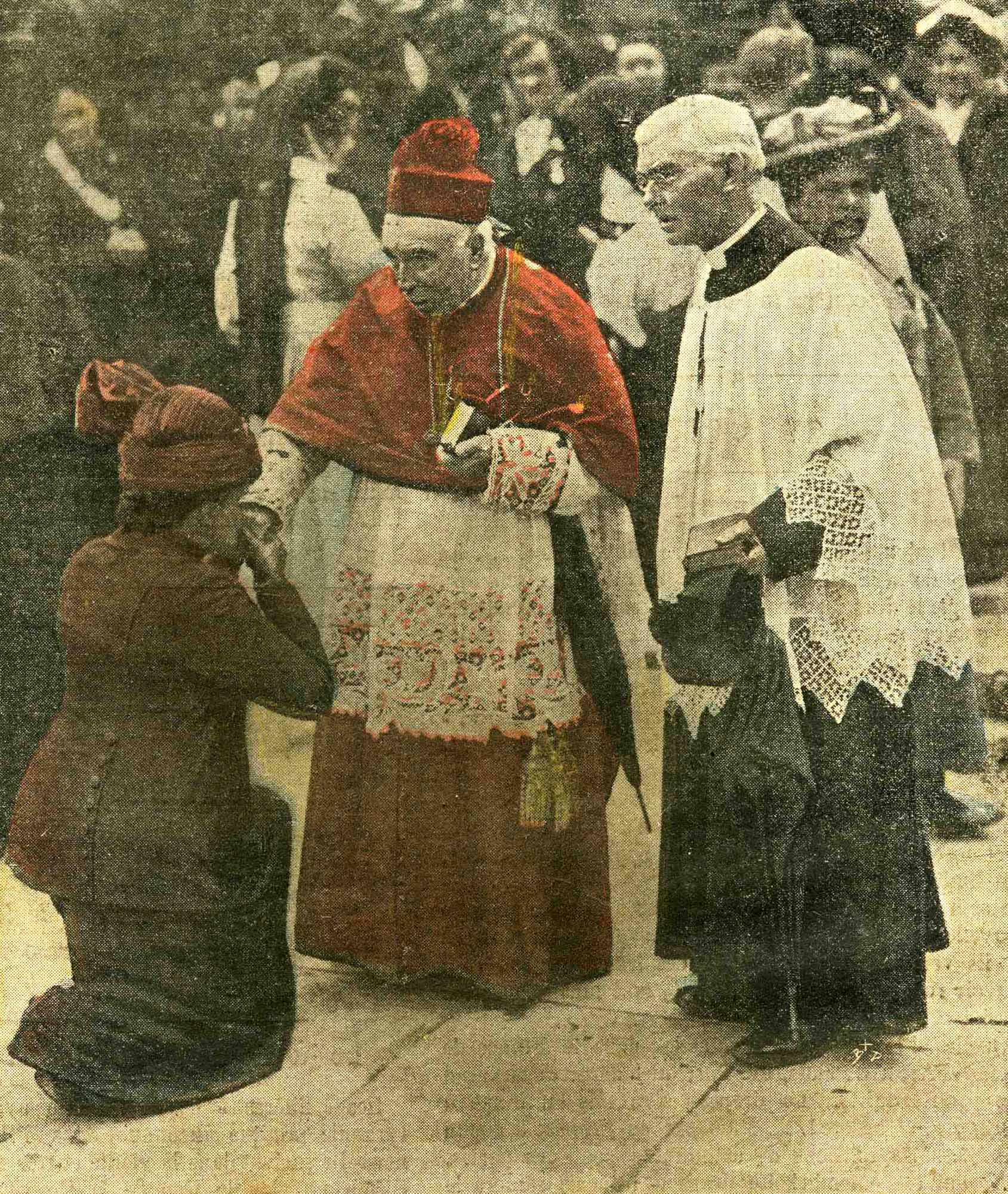 Irish Cardinal Michael Logue